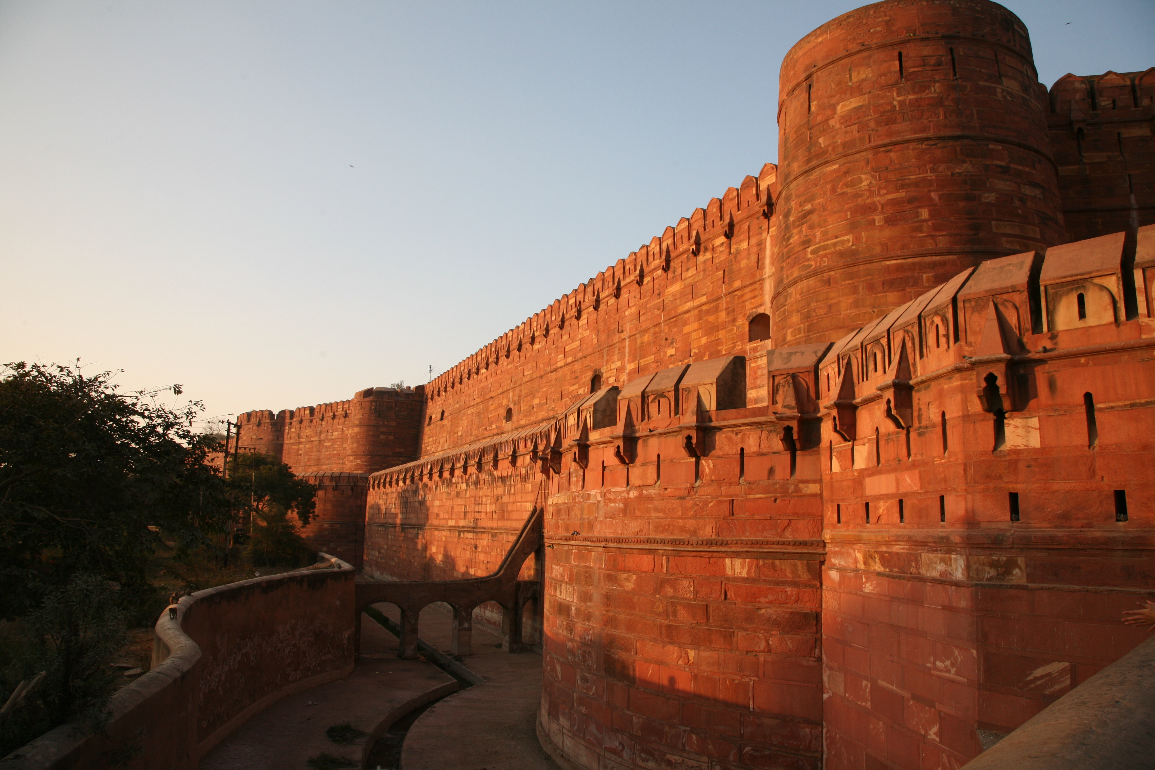 Outer wall of the fort.